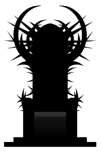 The Iron Throne, from GRR Martin's Song of Ice and Fire